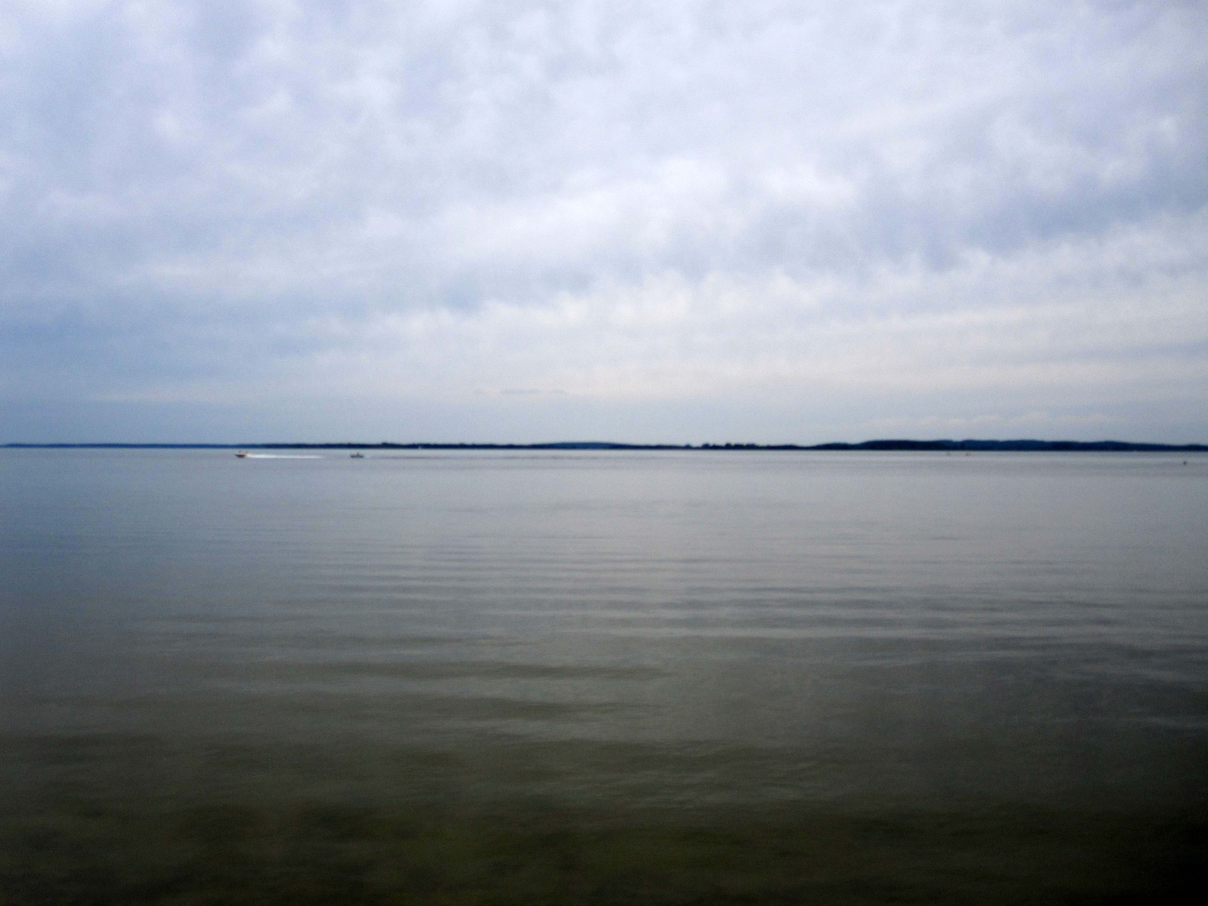 Nowe Guty - view of Lake Śniardwy